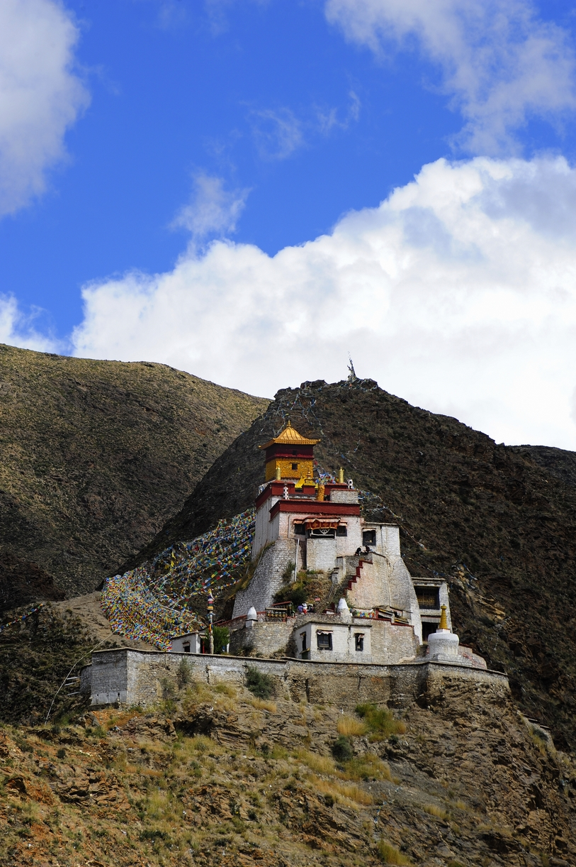 Yarlung Valley, Nedong County, Shannan Prefecture, Tibet